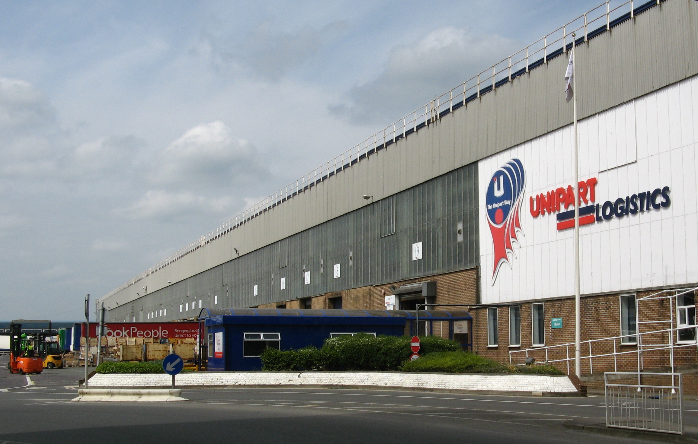 Unipart Logistics warehouse, Cowley, Oxford, England. Frontage of extremely large warehouse.